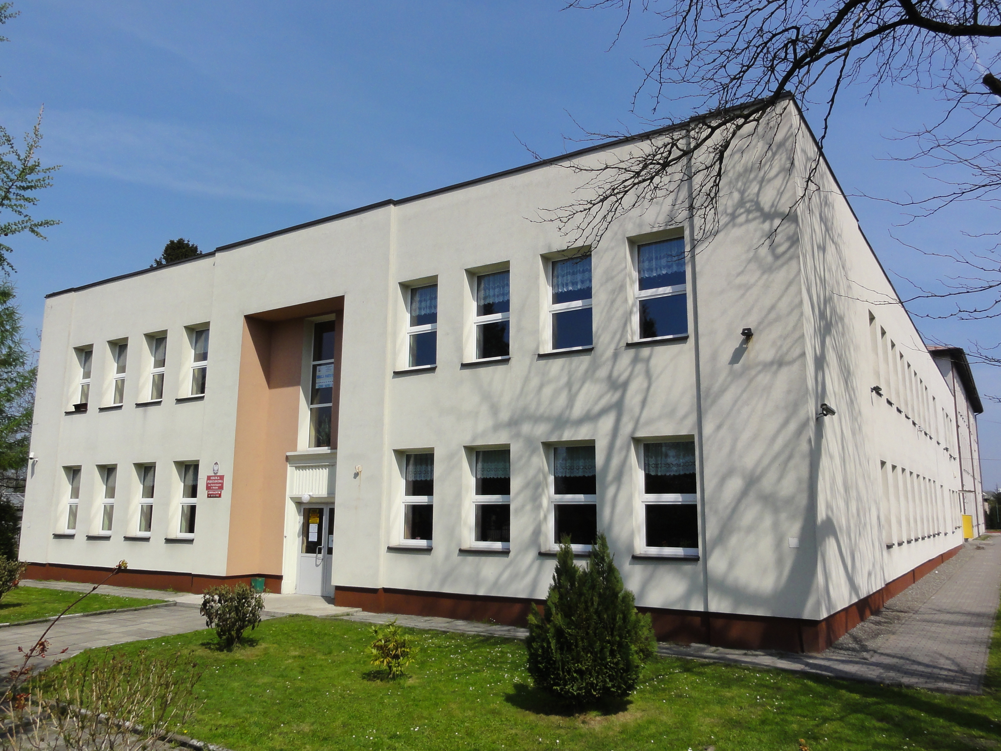 Elementary school and gymnasium in Mnich